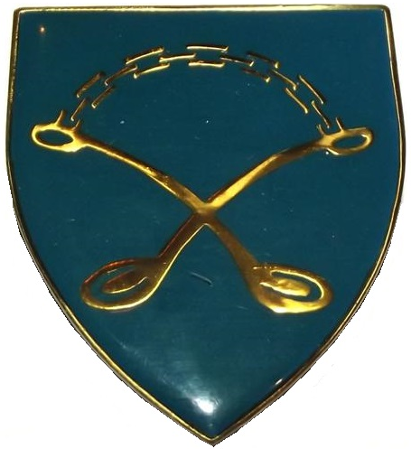 SADF 113 Battalion emblem